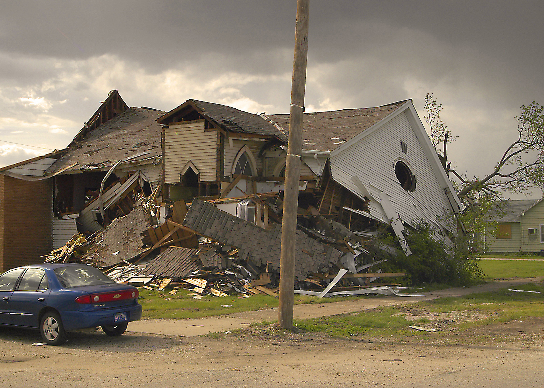 Bradgate IA, 6-1-04 --- Tornado destroyed Church. East side. FEMA Photo/Marvin Nauman Mandatory credit (no charge for use)